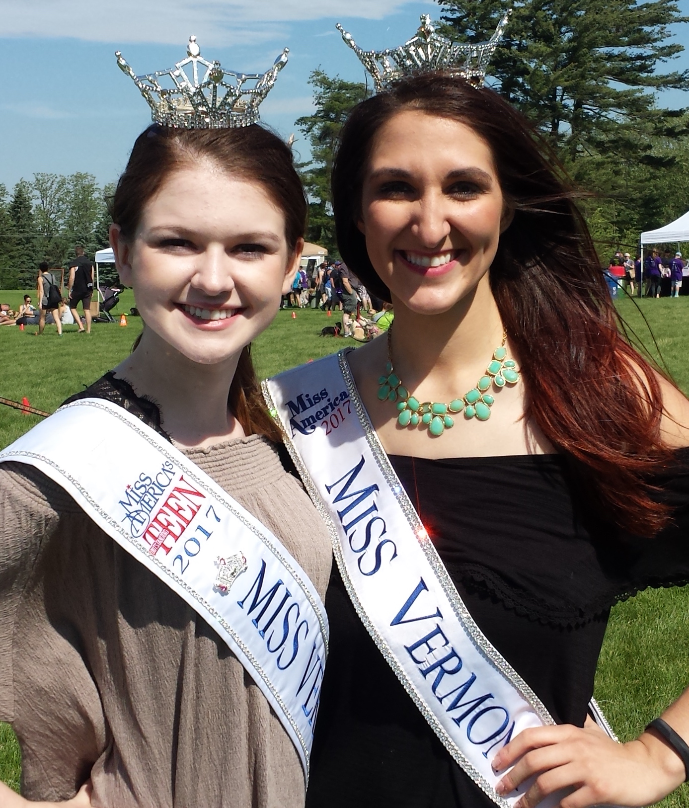 Miss America's Outstanding Teen of Vermont, Jenna Lawrence, and Miss Vermont, Erin Connor. (l-r) Photo was taken at the 2017 Humane Society of Chittenden County Walk for the Animals.